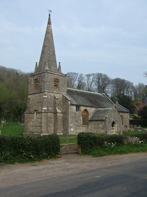 Church of St Michael Winterbourne Steepleton